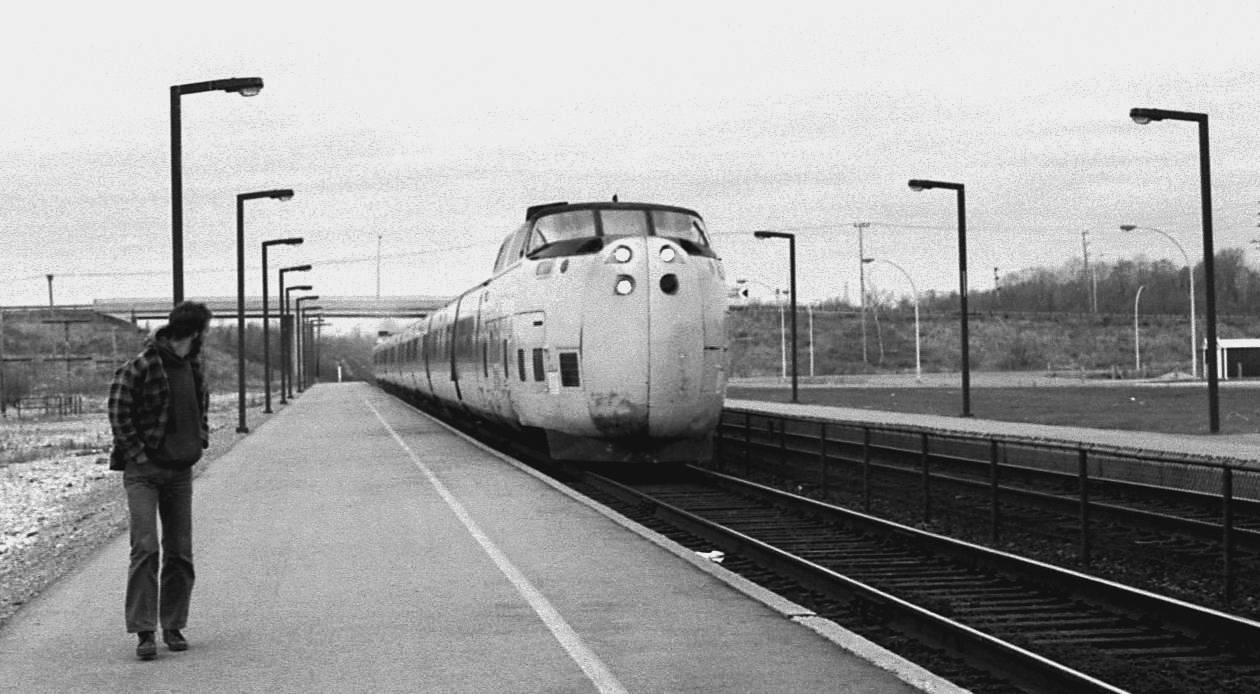 UAC TurboTrain at Kingston